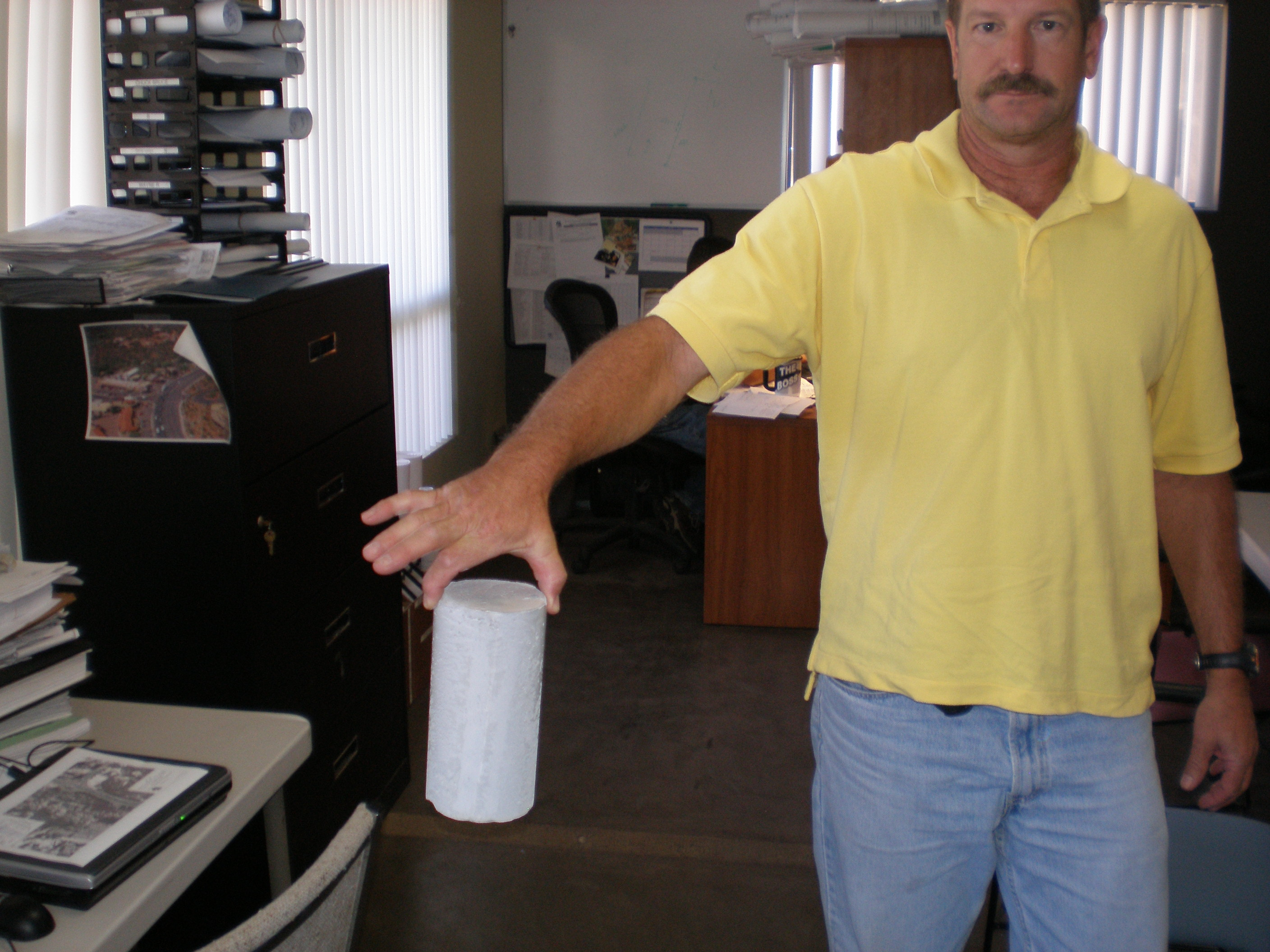 Foamed concrete sample shown as used on the FHWA, Highways for LIFE supported project. Foamed concrete was used to raise the vertical profile of an existing box culvert. The use of this new, innovative material was necessary in order to reduce the dead-load on the existing culvert, as the structural capacity of existing culvert was not adequate to support the weight of the additional concrete necessary to raise the roadway.